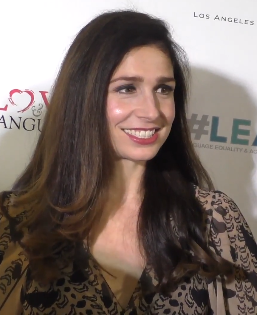 Shoshannah Stern in 2016